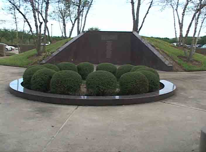 granite memorial to the 23 workers killed during the 23-Oct-1989 Phillips Disaster